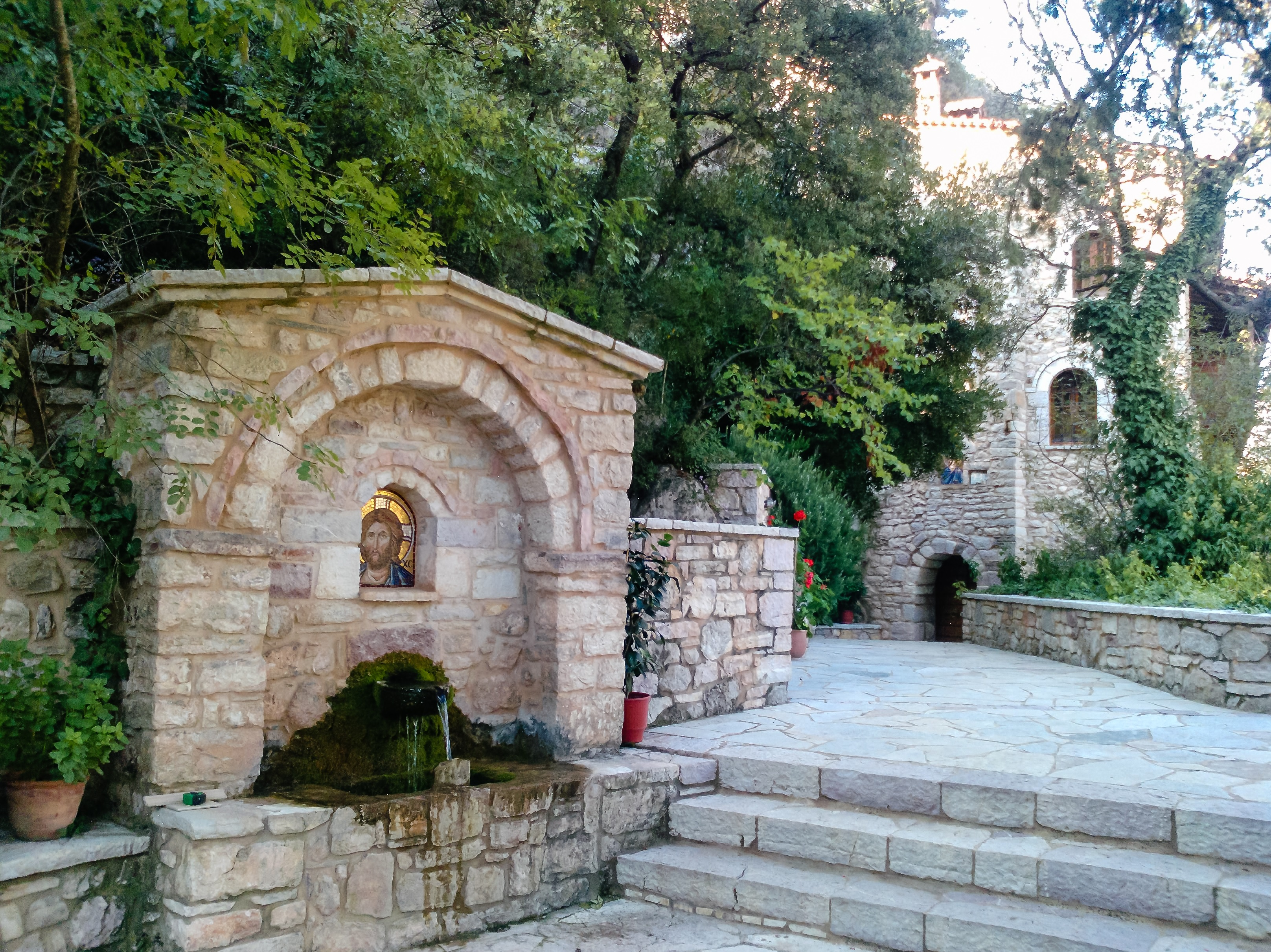 Panagia Chrysopodaritissa Monastery, Achaia, Greece.